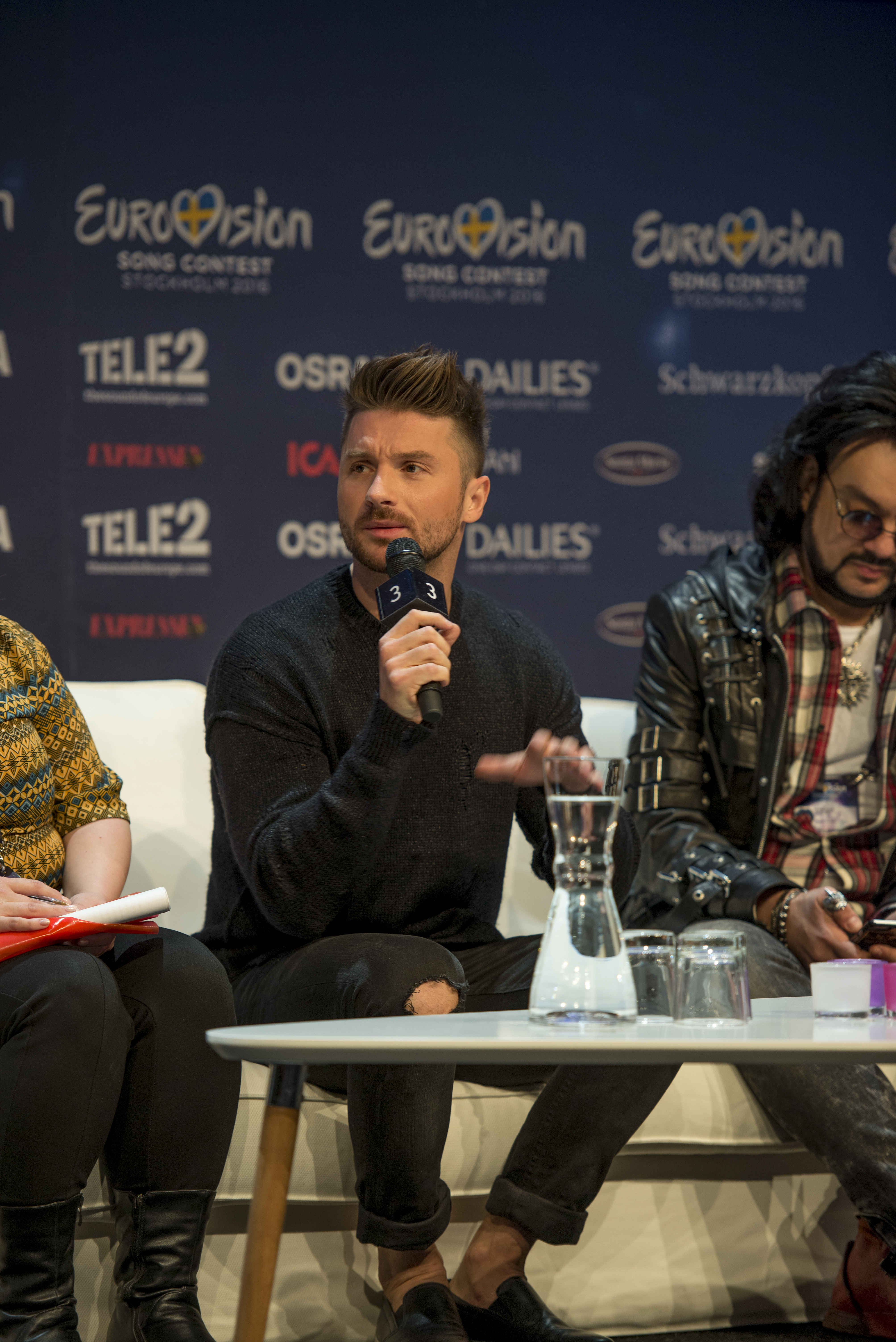 Sergey Lazarev at a Meet & Greet during the Eurovision Song Contest 2016 in Stockholm. (Help translate this text)